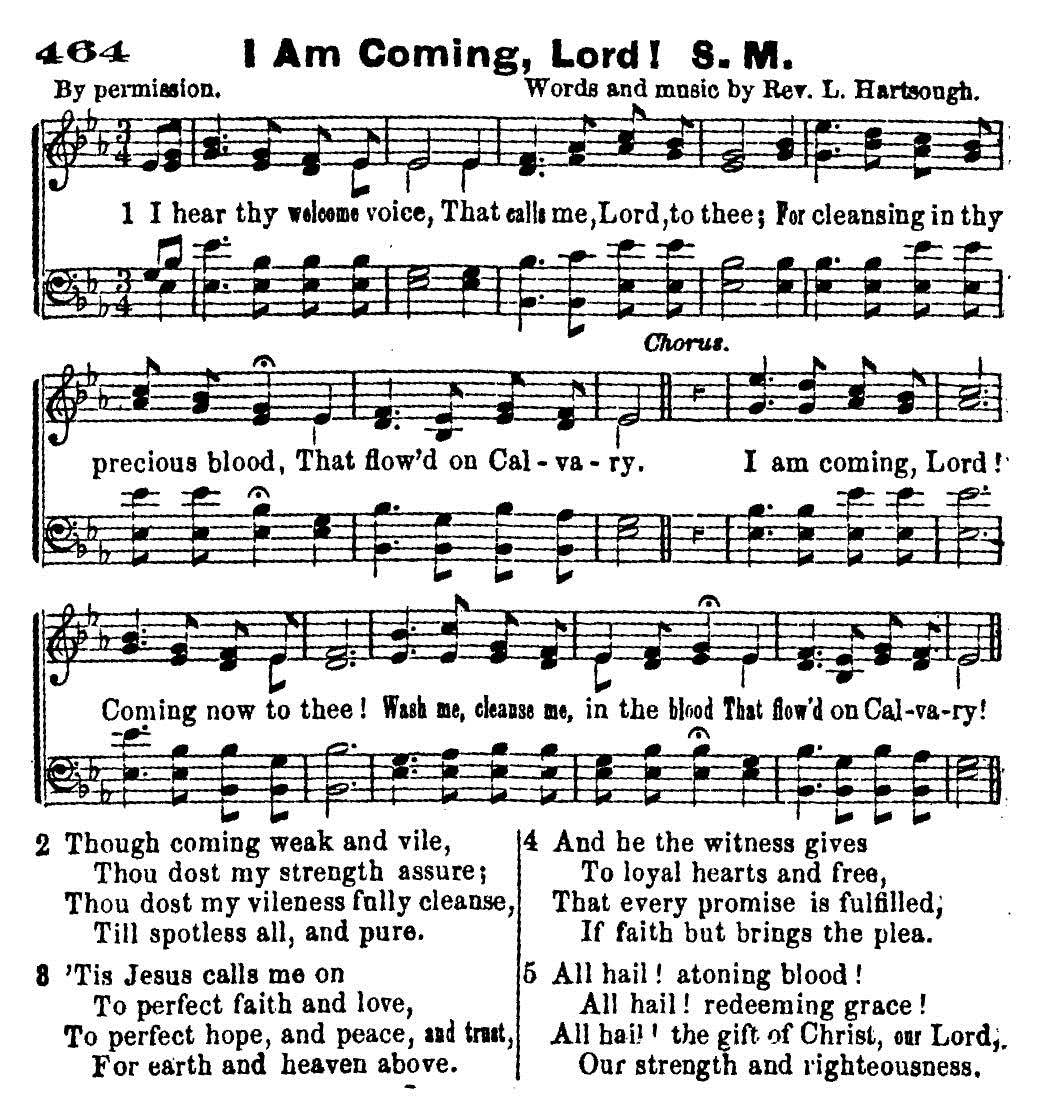 Original 1872 publication of "I Am Coming, Lord" (first line "I hear Thy welcome voice"). This gospel song, written and composed in Iowa by Lewis Hartsough, continues to appear in some English-language hymnals. Virtually since its translation into Welsh by Ieuan Gwyllt (John Roberts) during the 1870s the song has experienced widespread popularity in Wales, so much so that many mistakenly believe it to be an indigenous Welsh hymn. In Welsh it is commonly known as GWAHODDIAD (Welsh for "invitation").